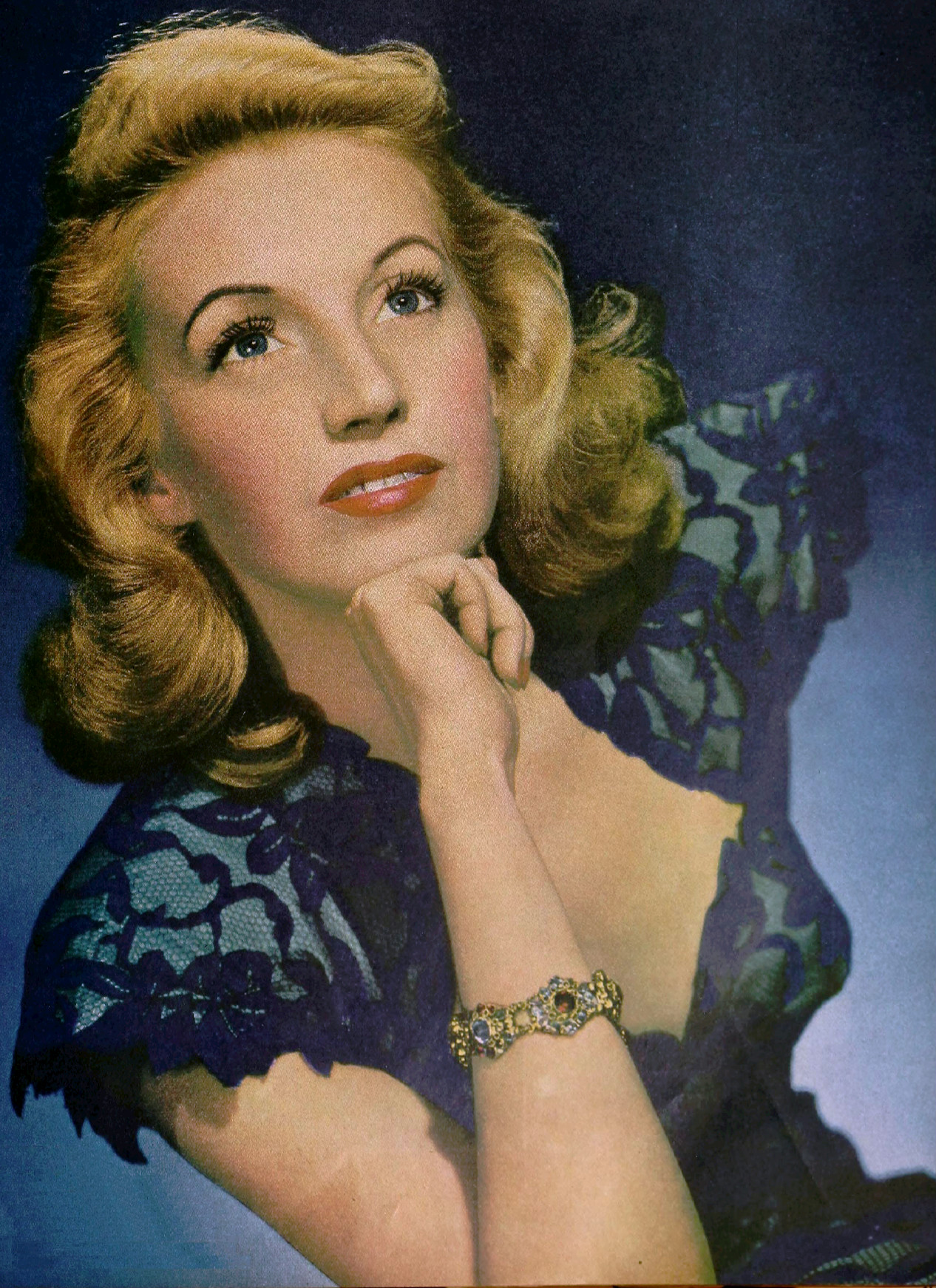 Photo of Martha Tilton from the cover of April 1946 Radio Mirror.